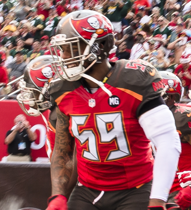 Tampa Bay Buccaneers linebacker, Mason Foster, in a game against Green Bay Packers at Raymond James Stadium in Tampa, Florida on December 21, 2014.